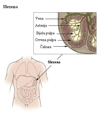 Summary